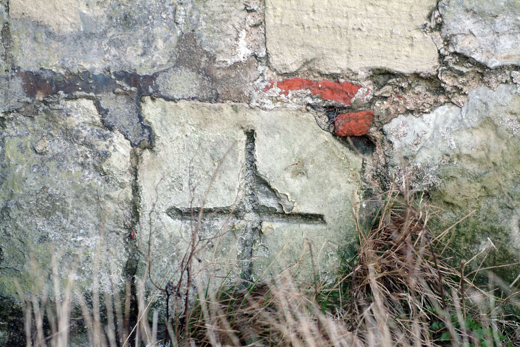 Close up of the medieval ashlar stonework from the farmhouse near the lost site of the Haltemprice Priory, Willerby, East Riding of Yorkshire, England.Note the cross markings, these may or may not have been created for the priory. Who knows? This is my own work and allow anyone to use it freely. Adamjennison111 10:10, 5 February 2007 (UTC)